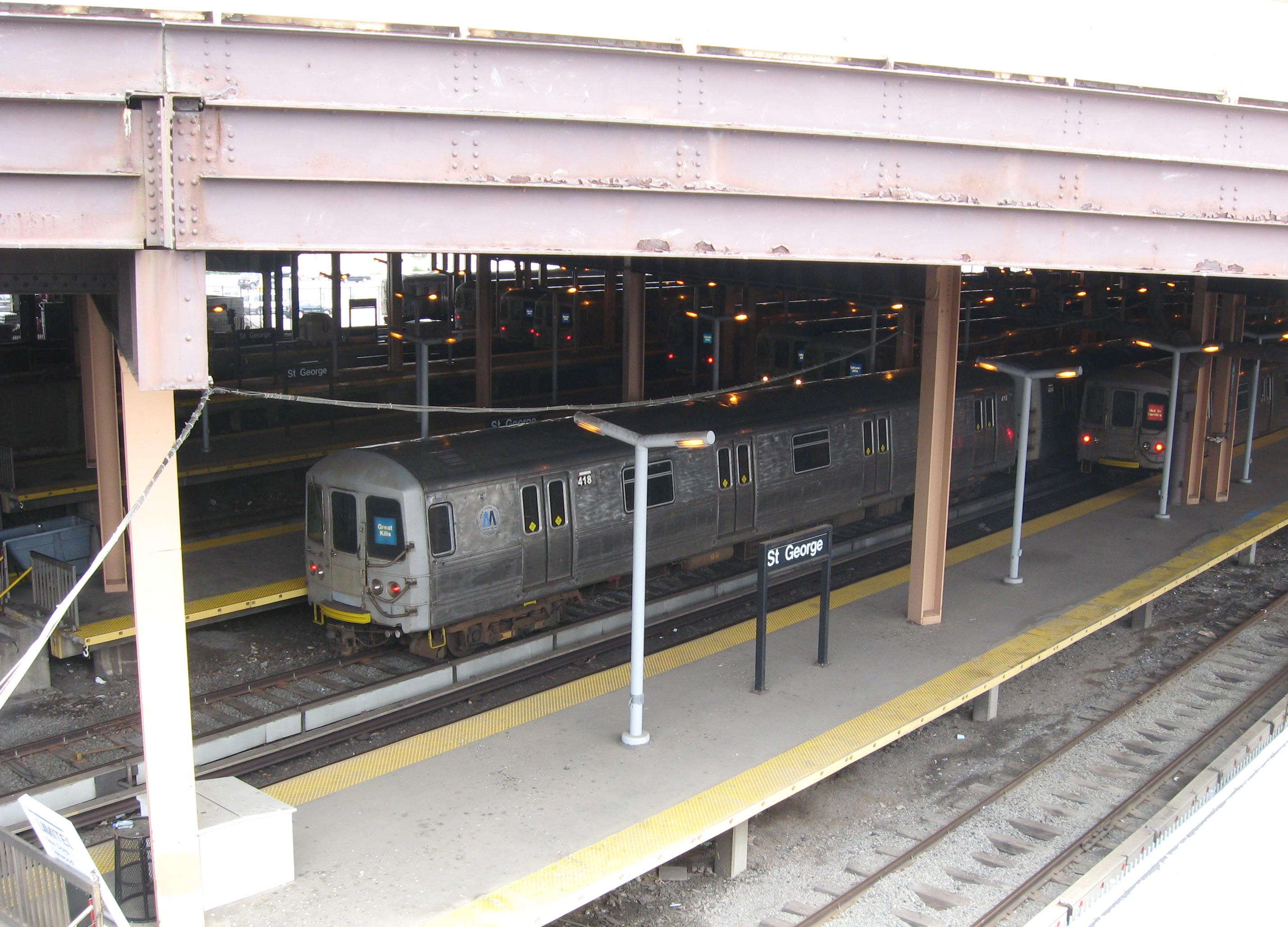 Looking north and down into Saint George (Staten Island Railway station) on a cloudy early afternoon.